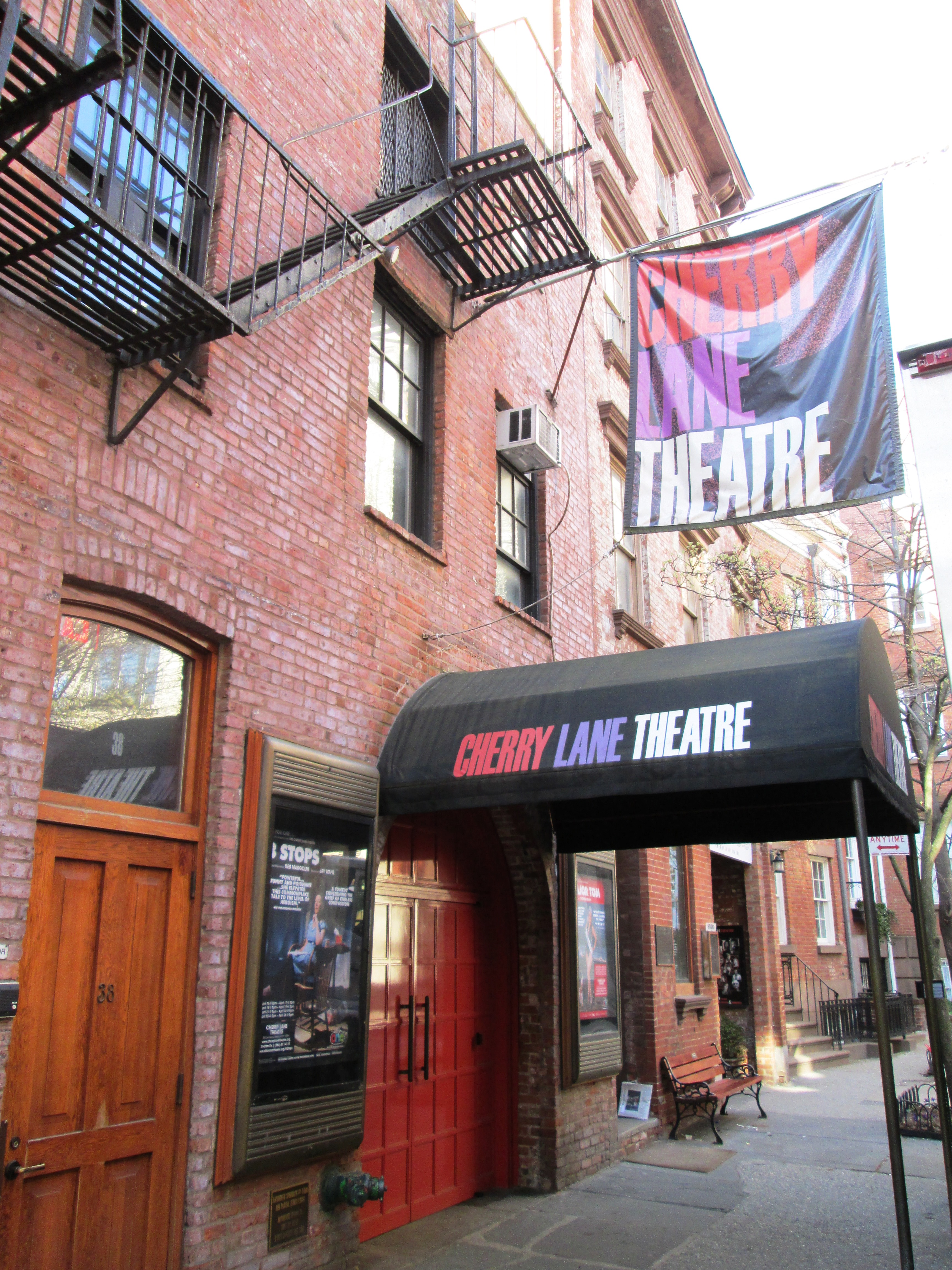 The Cherry Lane Theatre at 38 Commerce Street between Barrow and Bedford Streets in the West Village neighborhood of Greenwich Village in Manhattan, New York City was built in 1817 as a farm silo, and was converted into a theatre in 1924. It is the oldest continuously running off-Broadway theater and contains a 179-seat main stage and a 60-seat studio space.